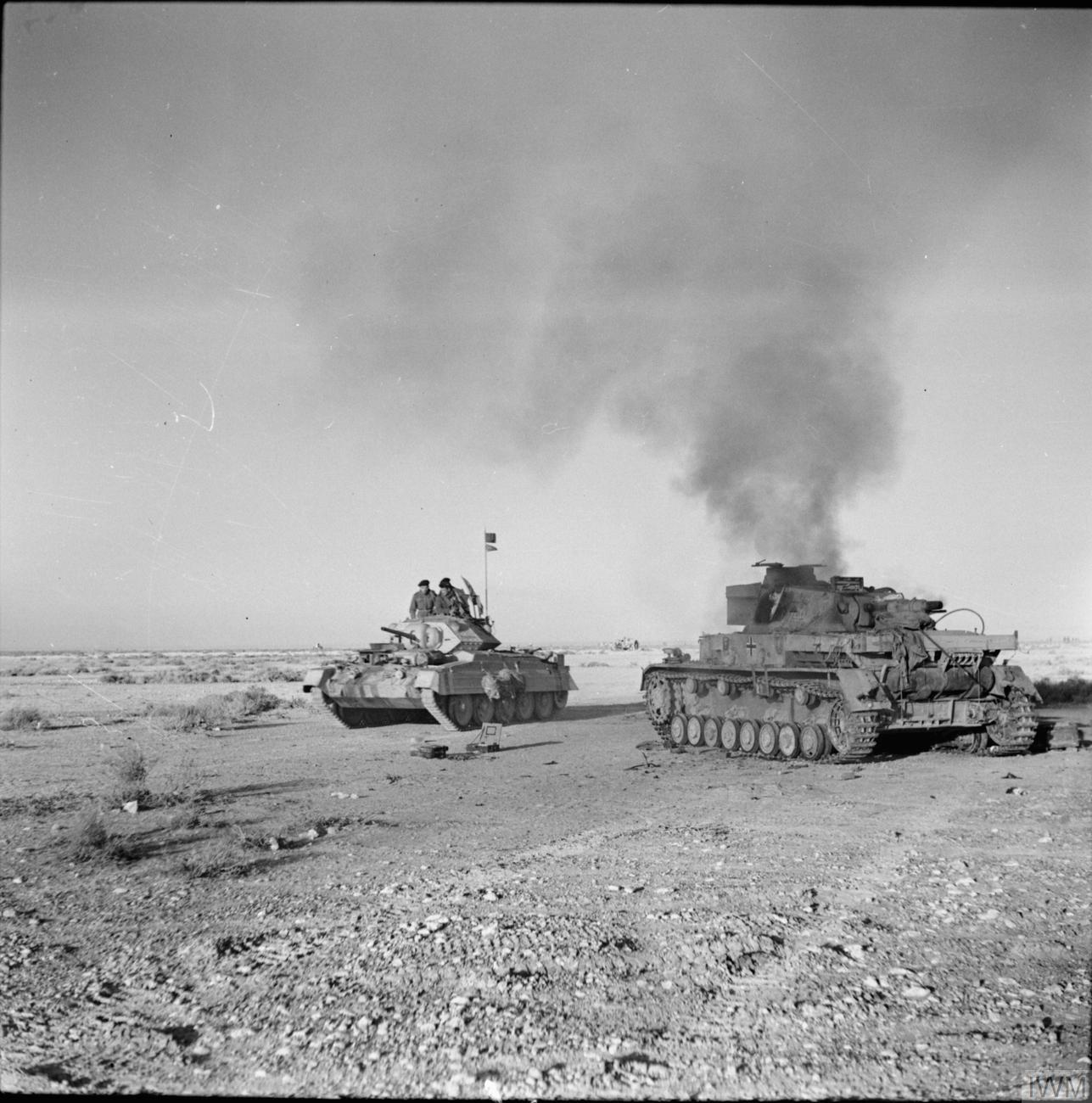 The British Army in North Africa 1941 A Crusader tank passes a burning German PzKpfw IV tank, 27 November 1941.